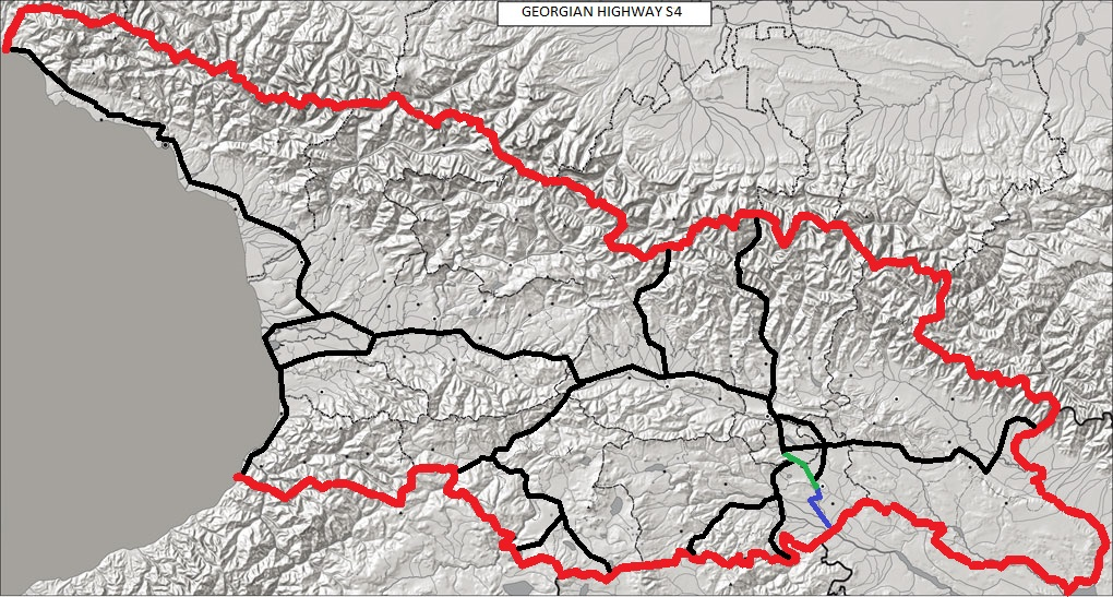 This is Georgian Highway S4 graphic map. green color is highway with four lines and blue is highway with two lines...